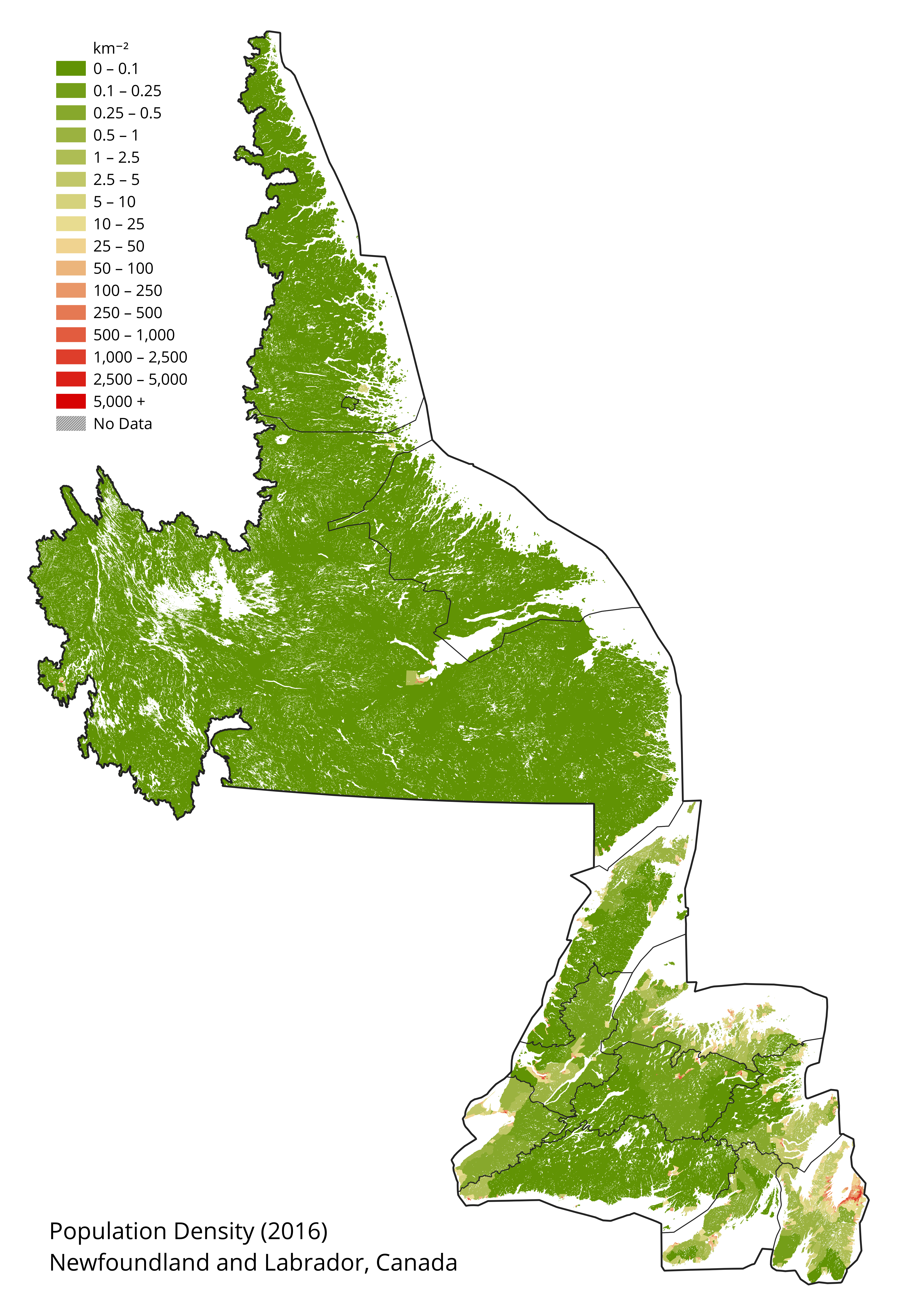 Population density map of Newfoundland and Labrador, Canada. Boundary open data and final counts from Canadian 2016 Census accessed on April 22 2018. Waterbodies from WWF HydroLAKES database.